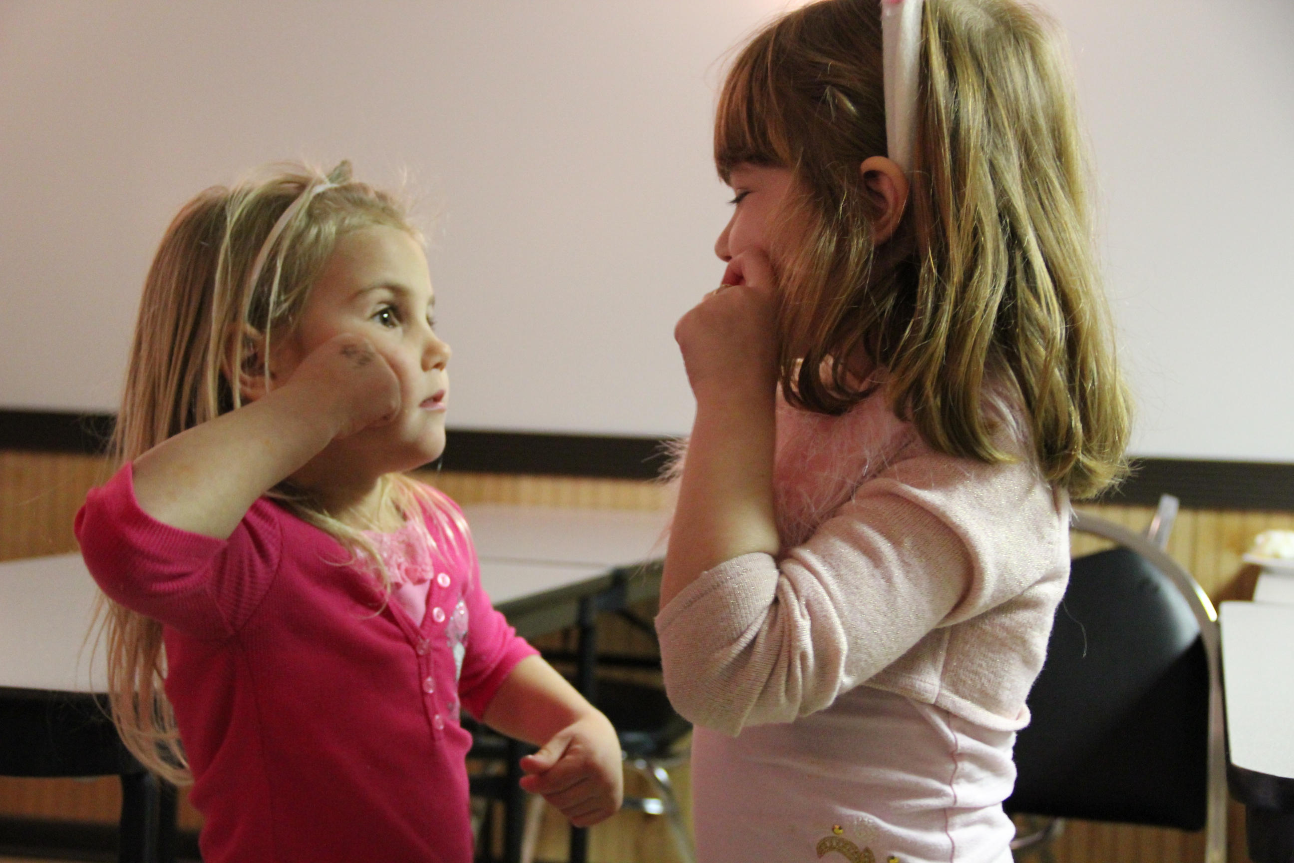 Little CODA girlfriends are sharing to learn the American Sign Language.